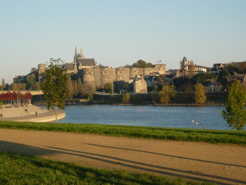 View of the castle of Angers and Maine river, from the Balzac park. Angers, Maine-et-Loire, France.